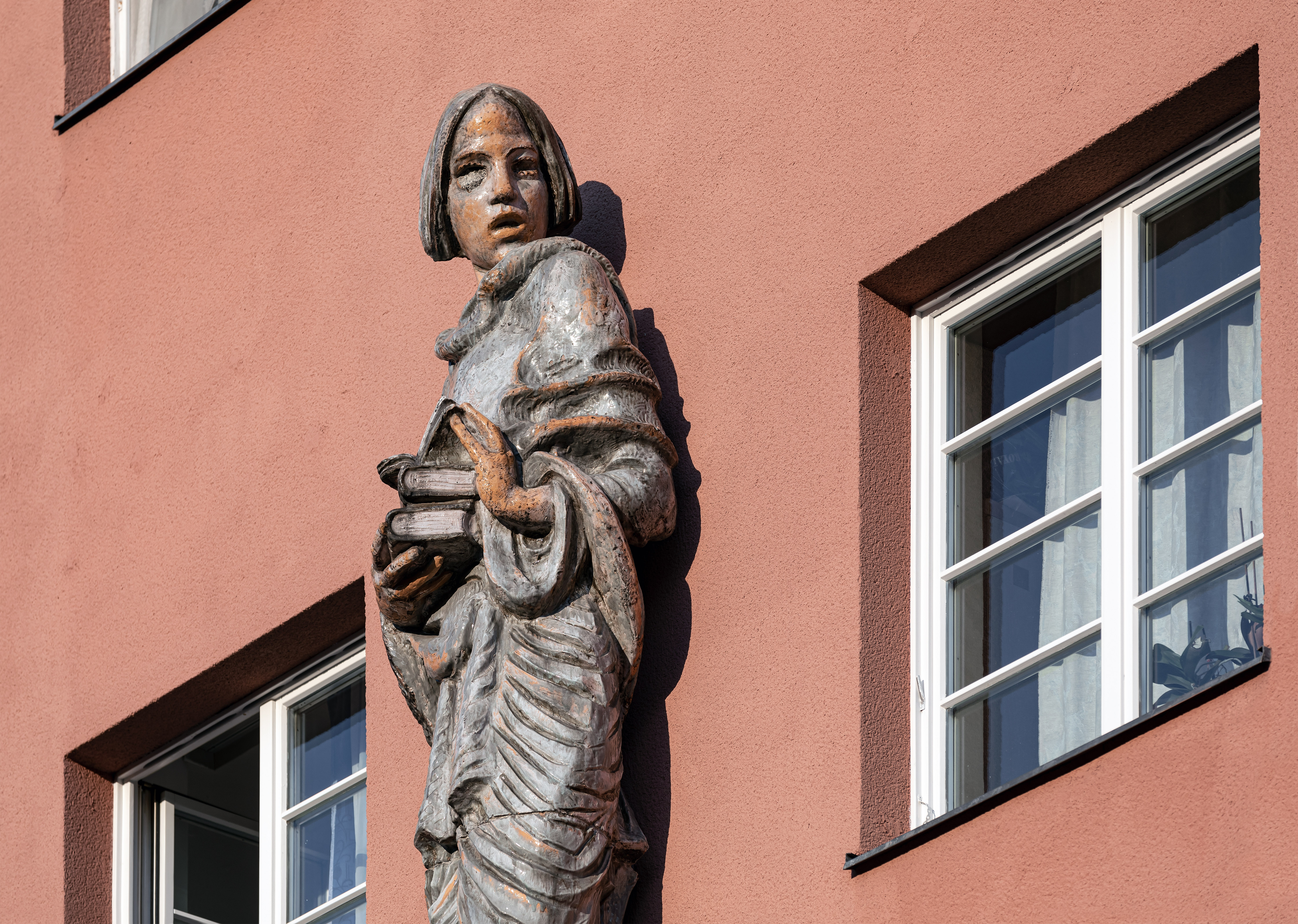 Statue Aufklärung (see Age of Enlightenment) Karl-Marx-Hof in Vienna, Austria. This media shows the Vienna residential building (Gemeindebau) with the ID 220.